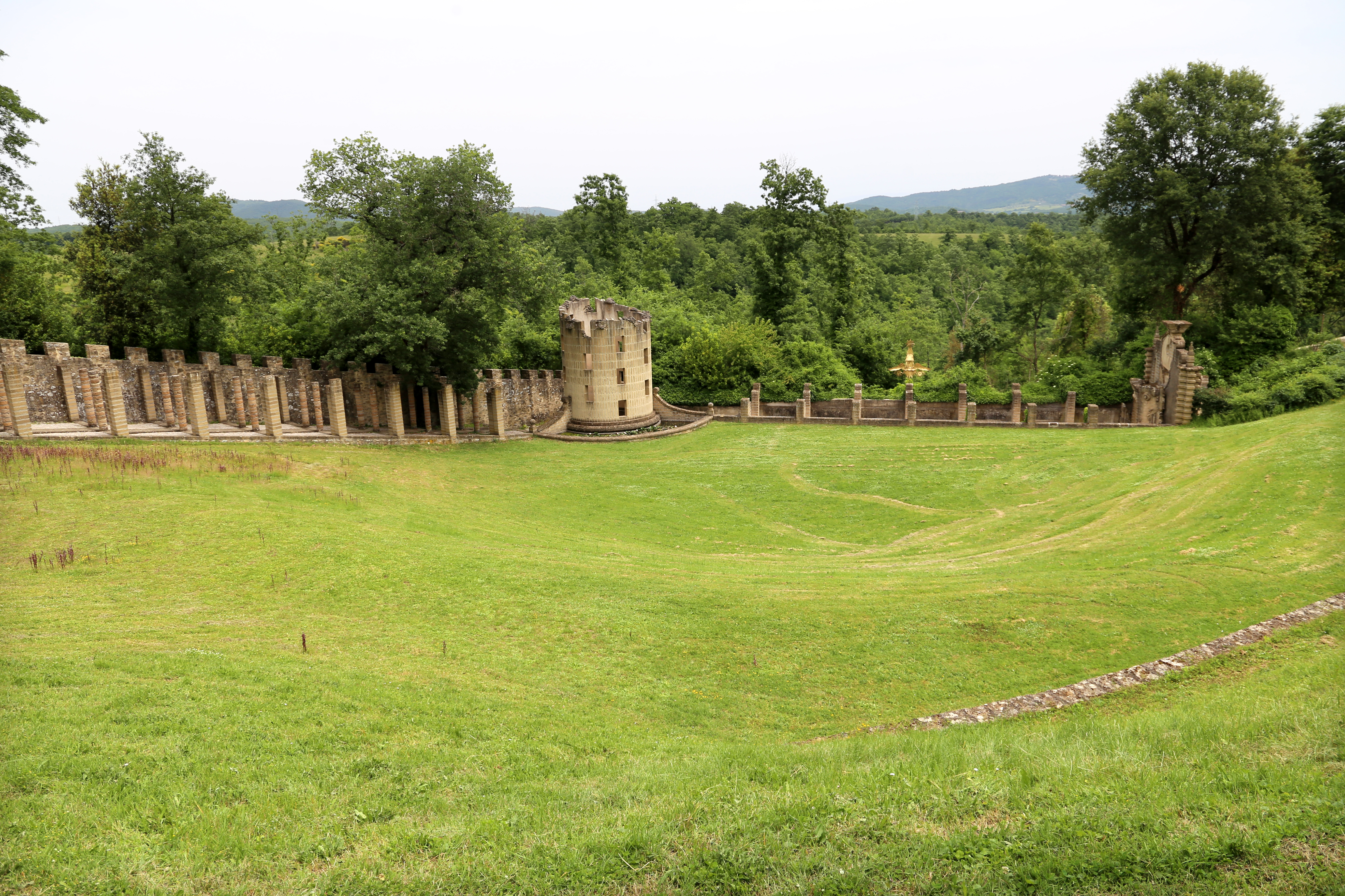 La Scarzuola